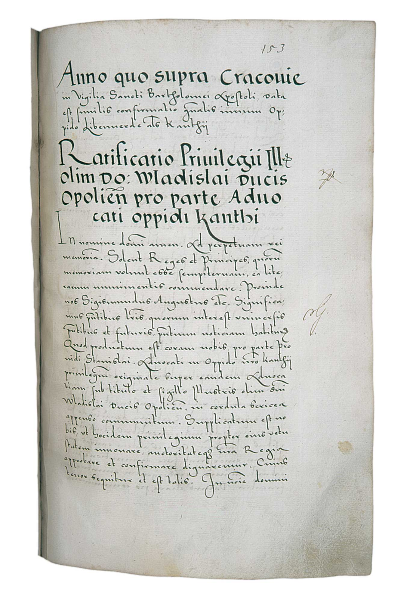 Act of selling the aldermanship of Kęty, Poland (1277)